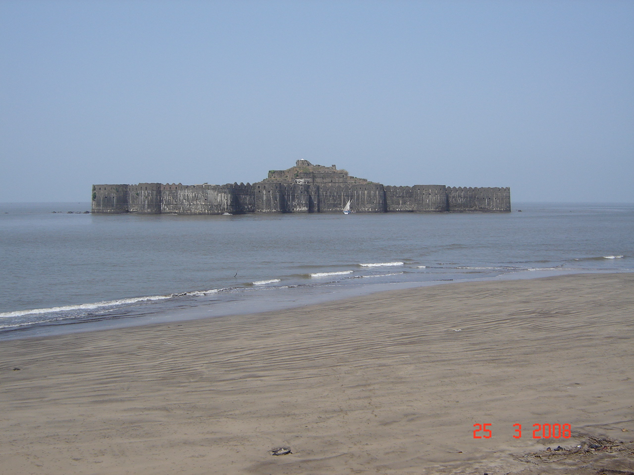 Murud Janjira